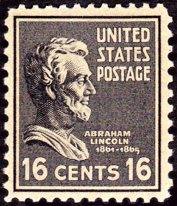 Lincoln_1938_Issue-16c.jpg